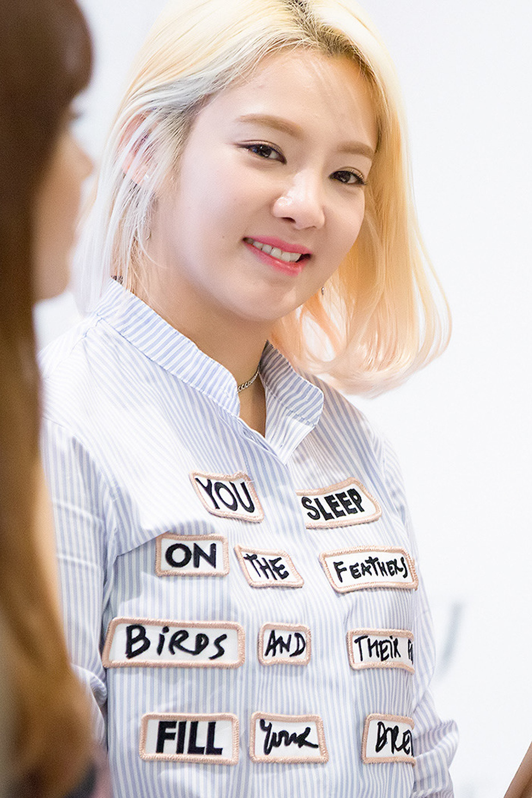 Kim Hyo-yeon at a fanmeet of Lotte Department Store Casio, on June 23, 2016.